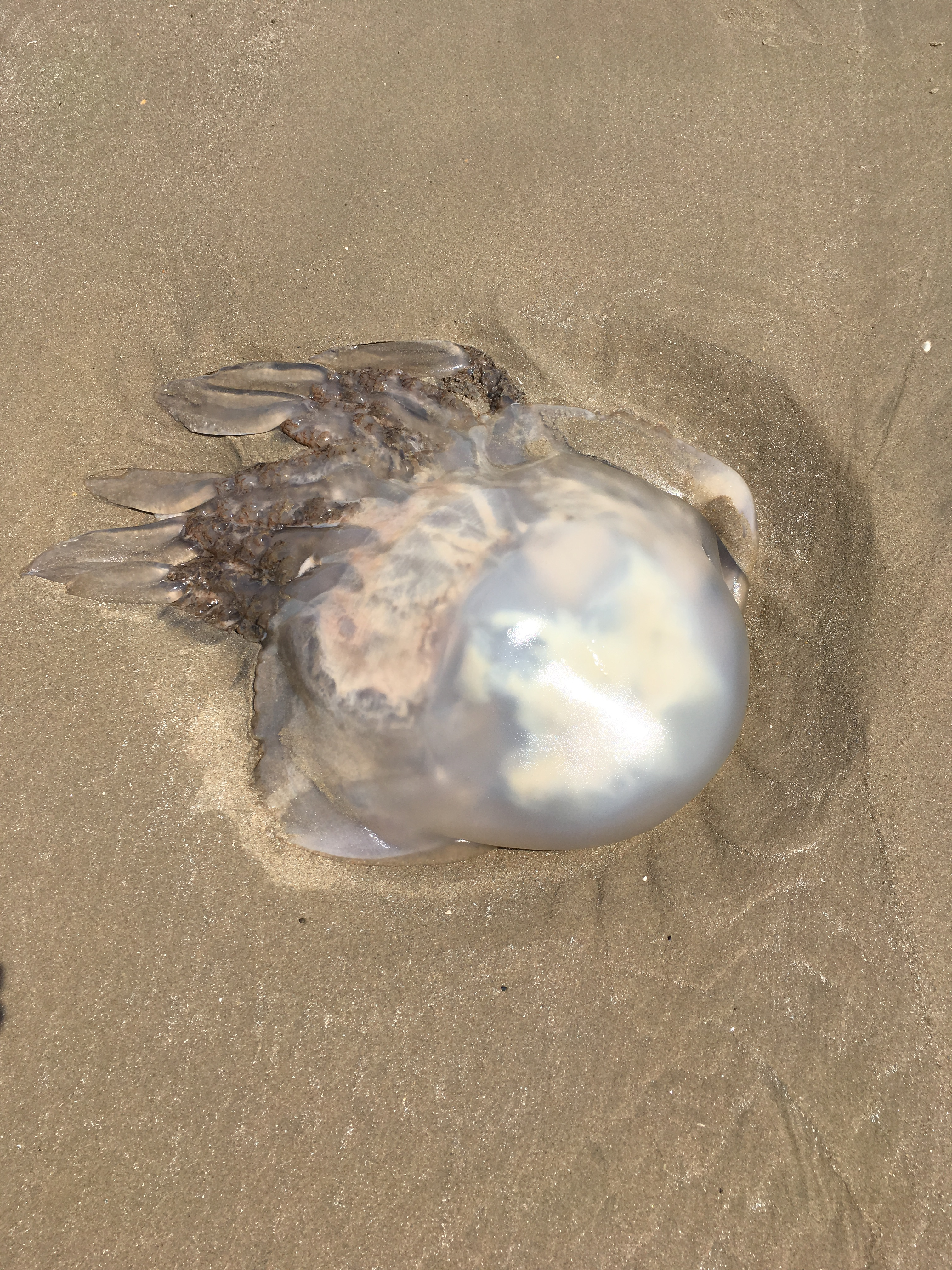 Barrel jellyfish washed ashore on Cemetery Beach, Gwynedd, Wales.